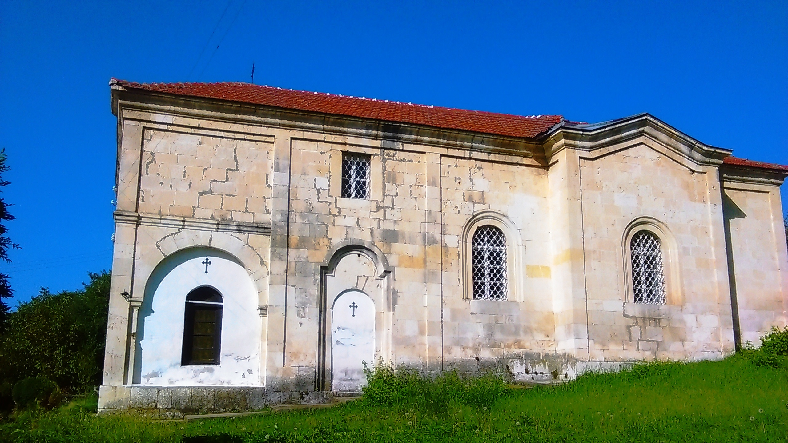 Dormition of the Mother of God village church in Kamenovo, Razgrad Province